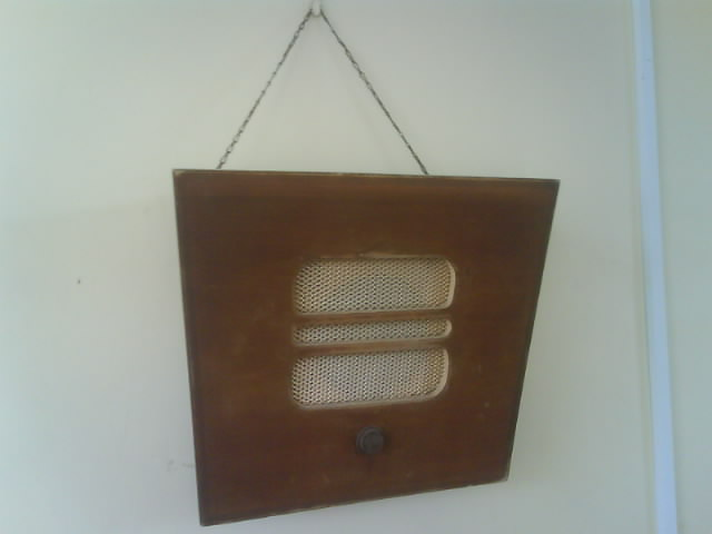 A speaker box which was once used for receiving the (now defunct) Barbados Rediffusion subscription-radio service from London, England.